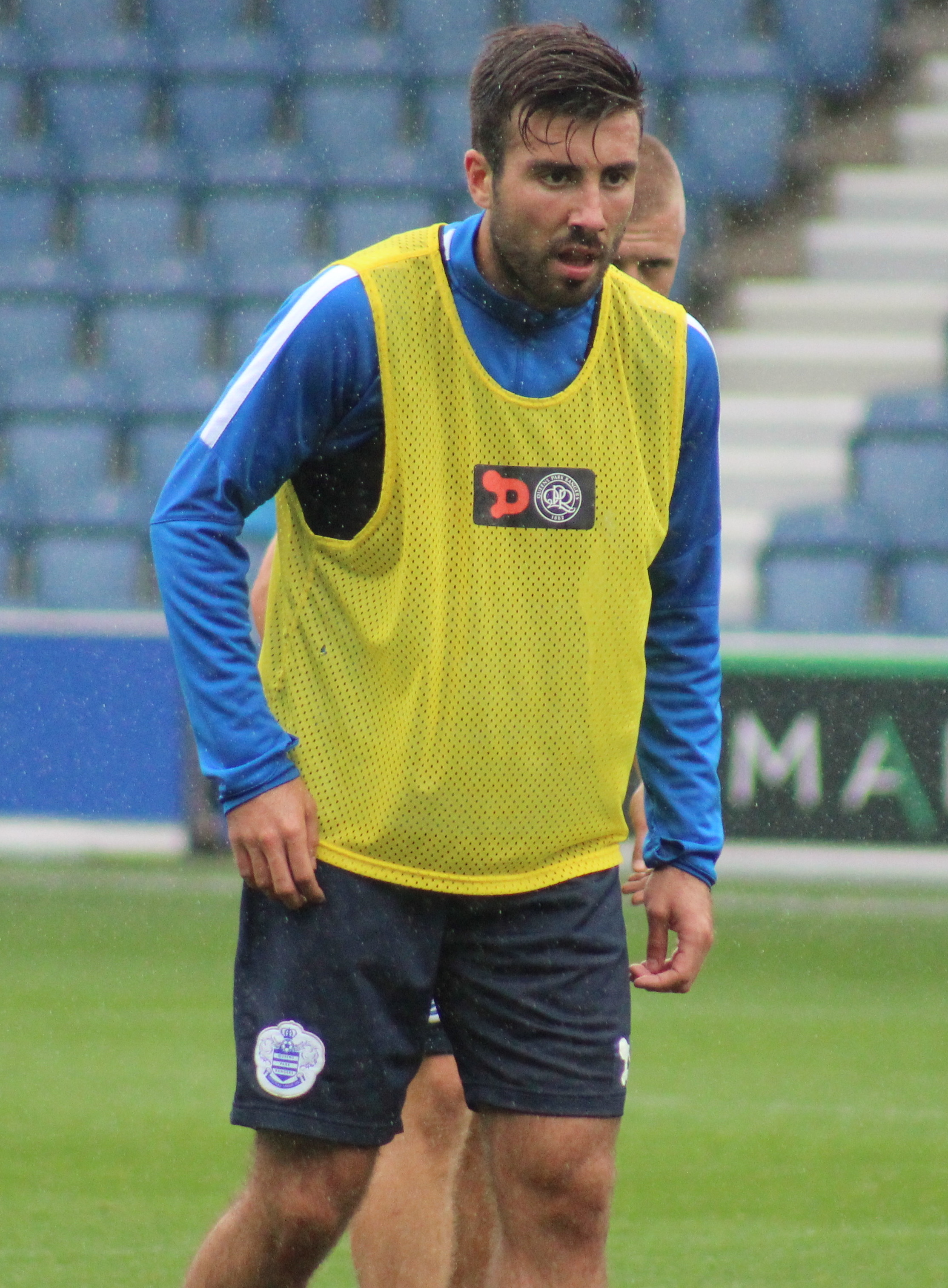 Doughty training with Queens Park Rangers in 2016